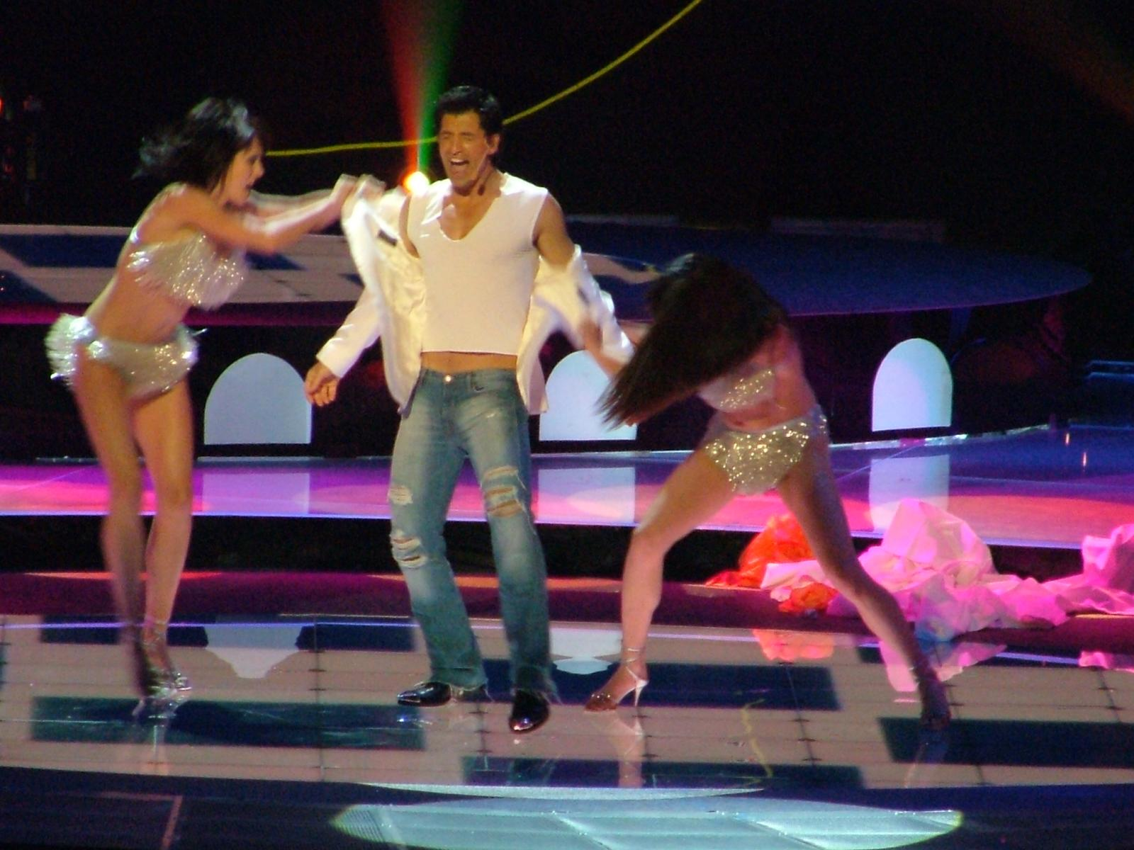 This is a photograph of Sakis Rouvas (Greece) in the Eurovision Song Contest 2004.